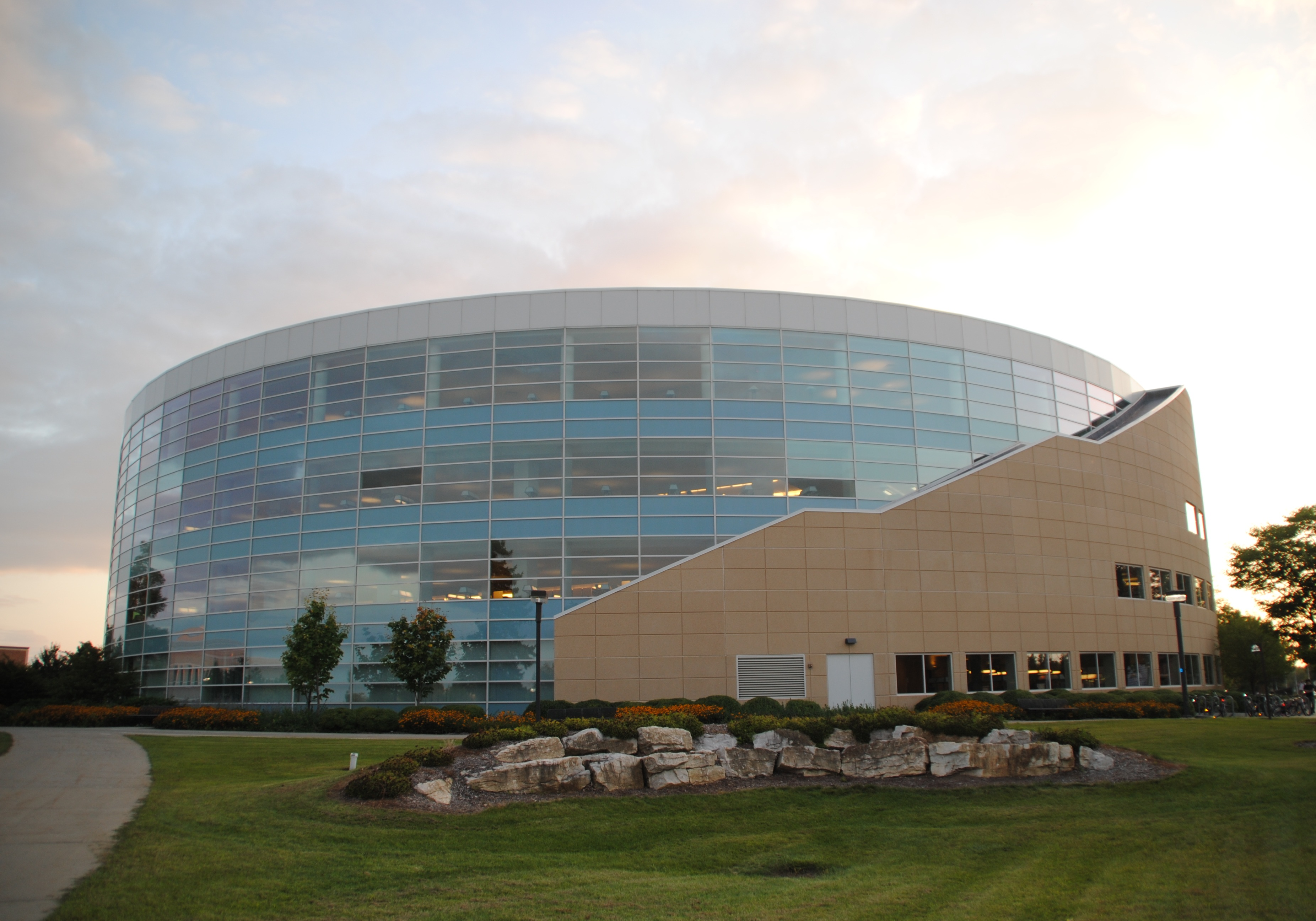 Picture of CMU's Park Library, my work.